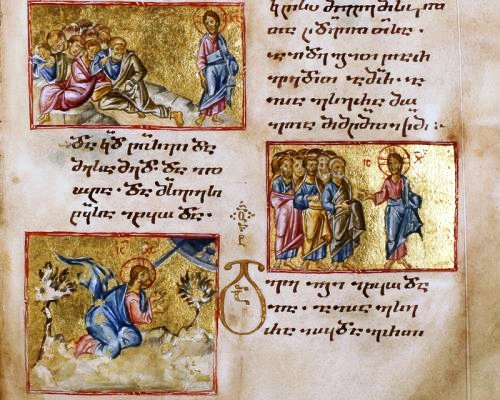 An illuminated folio from the Georgian MSS of the gospels copied at the Mokvi monastery, c. 1300.